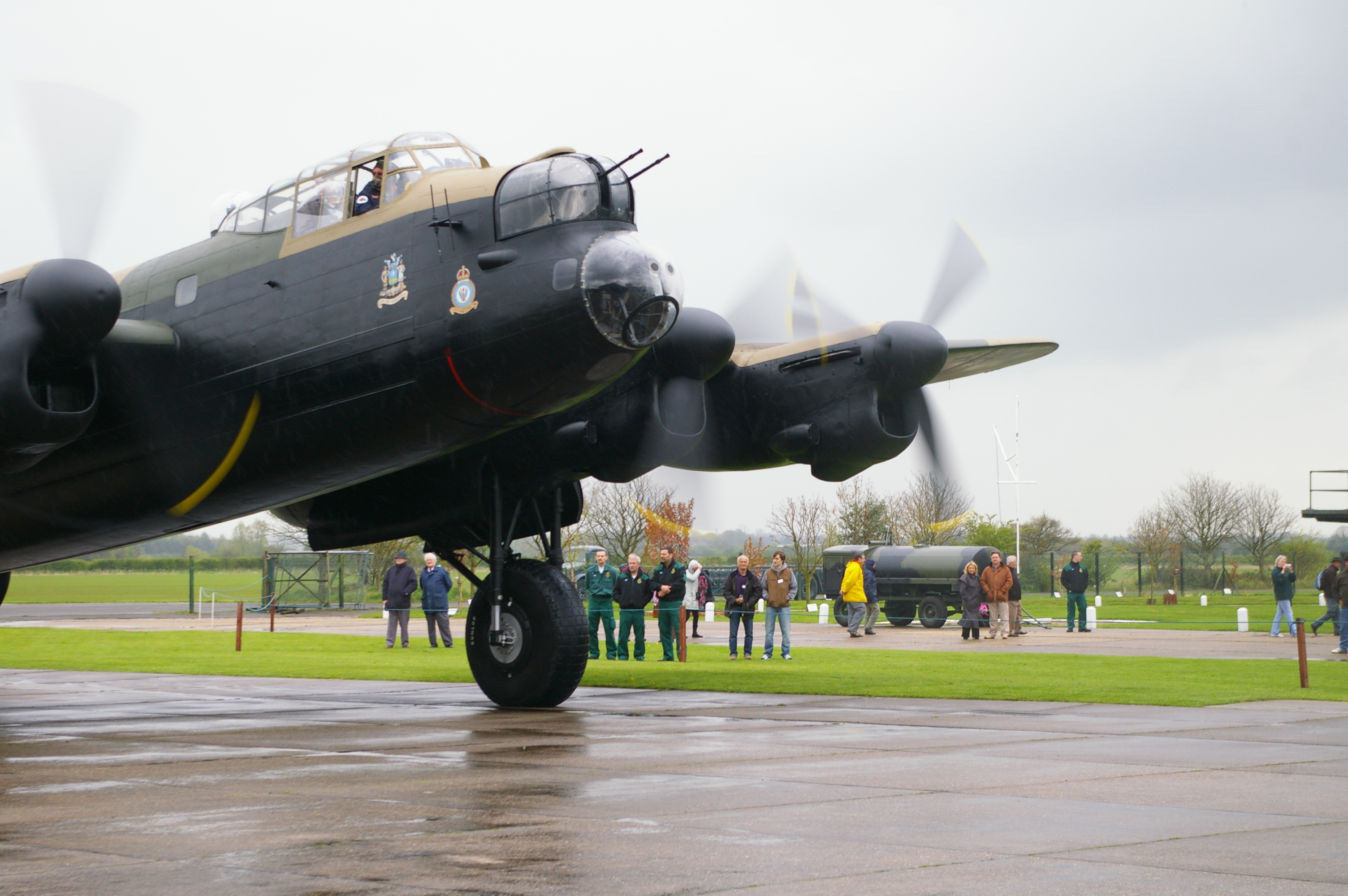 Avro Lancaster bomber NX611 "Just Jane" taxiing April 2008